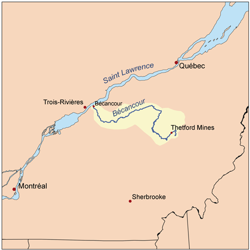 This is a map of the Bécancour River watershed. I, Karl Musser, created it based on USGS and Digital Chart of the World data.